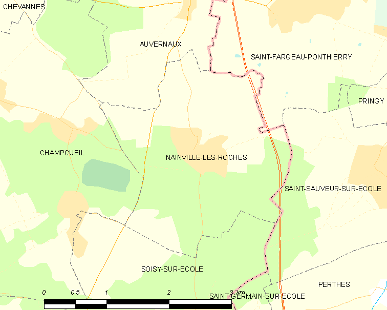 Map of French municipality Nainville-les-Roches